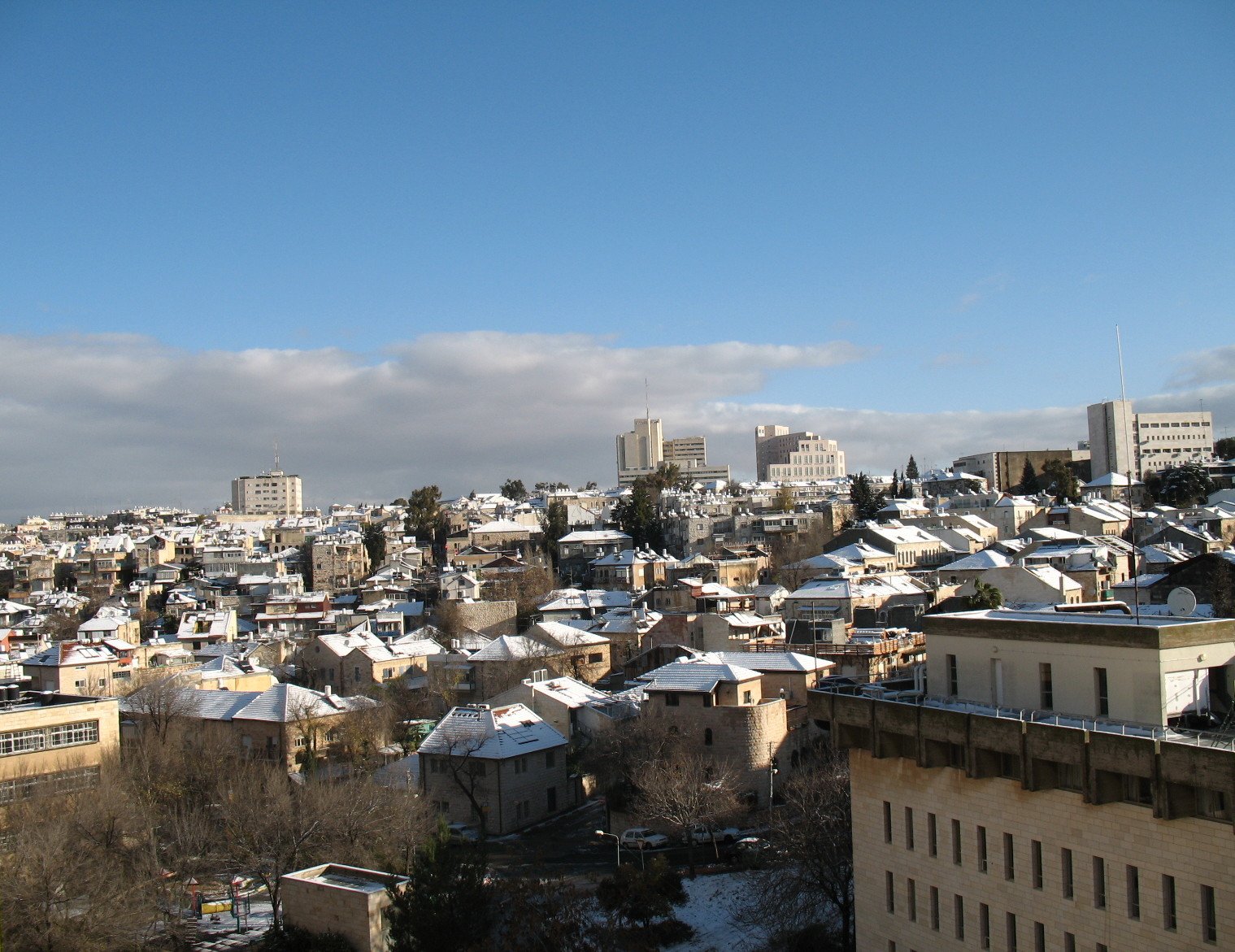 Nachlaot, Jerusalem after a snow fall.